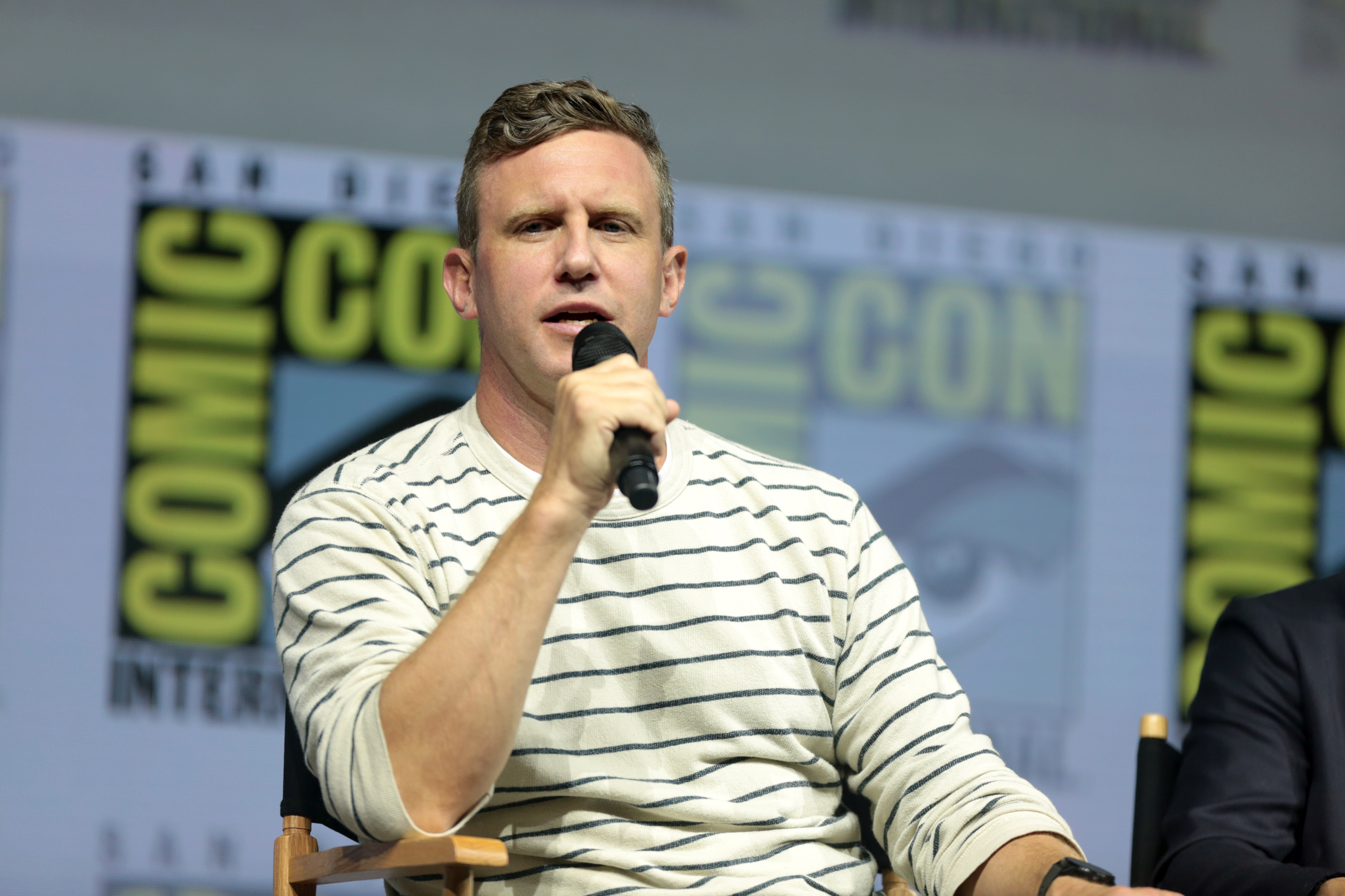 Ruben Fleischer speaking at the 2018 San Diego Comic Con International, for "Venom", at the San Diego Convention Center in San Diego, California.